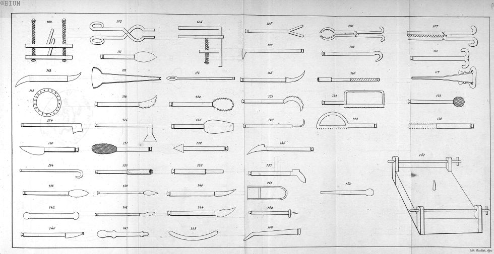 Surgical instruments Abulcasis